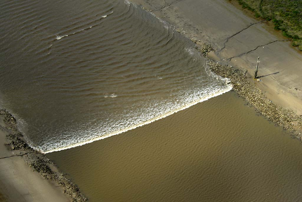 Tidal river bore on the river ribble Lancashire shown along the section of river between the entrance to the River Douglas and Preston